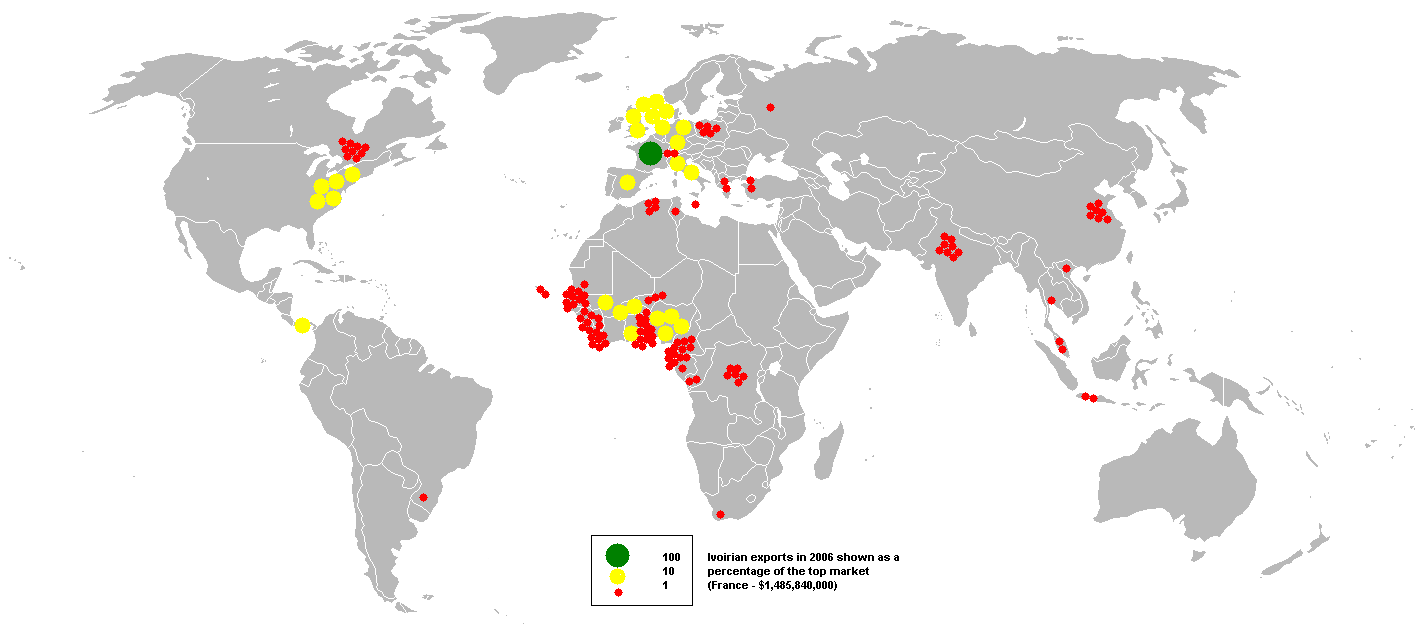 This bubble map shows the global distribution of Ivoirian exports in 2006 as a percentage of the top market (France - $1,485,840,000). This map is consistent with incomplete set of data too as long as the top producer is known. It resolves the accessibility issues faced by colour-coded maps that may not be properly rendered in old computer screens. Data was extracted on 22nd September 2007 from Based on :Image:BlankMap-World.png